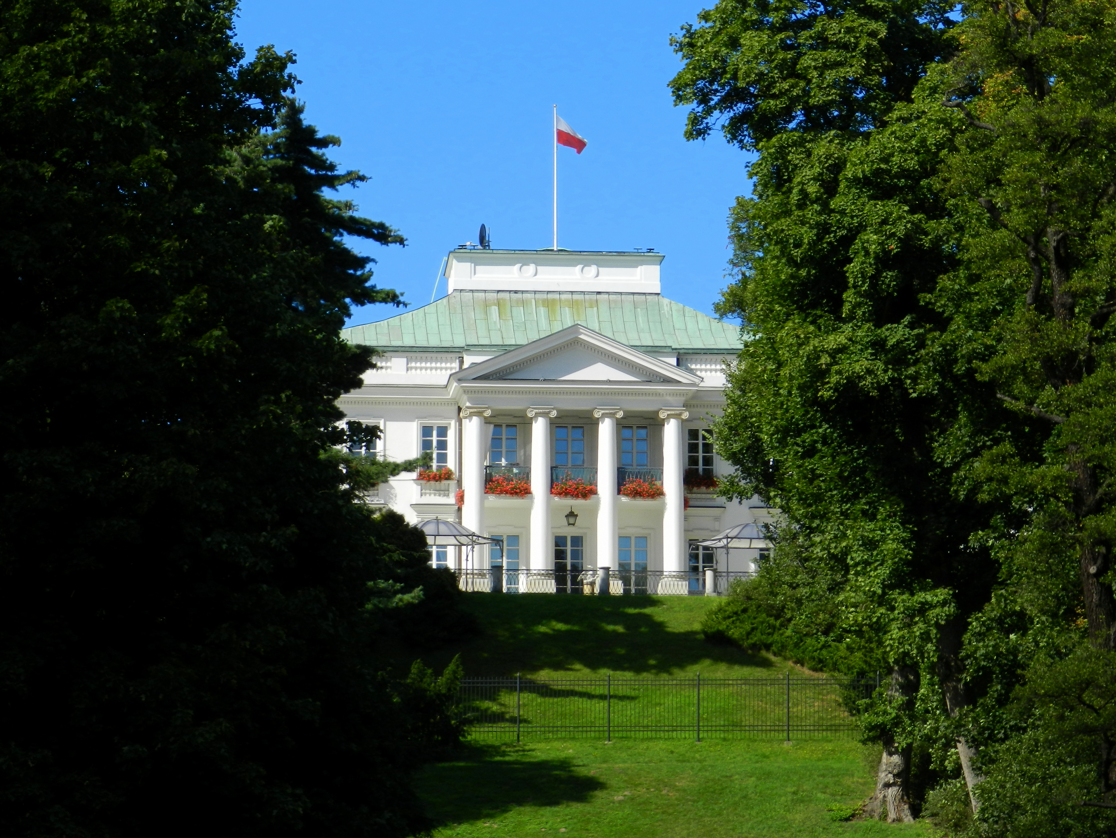 Belweder Palace in Warsaw